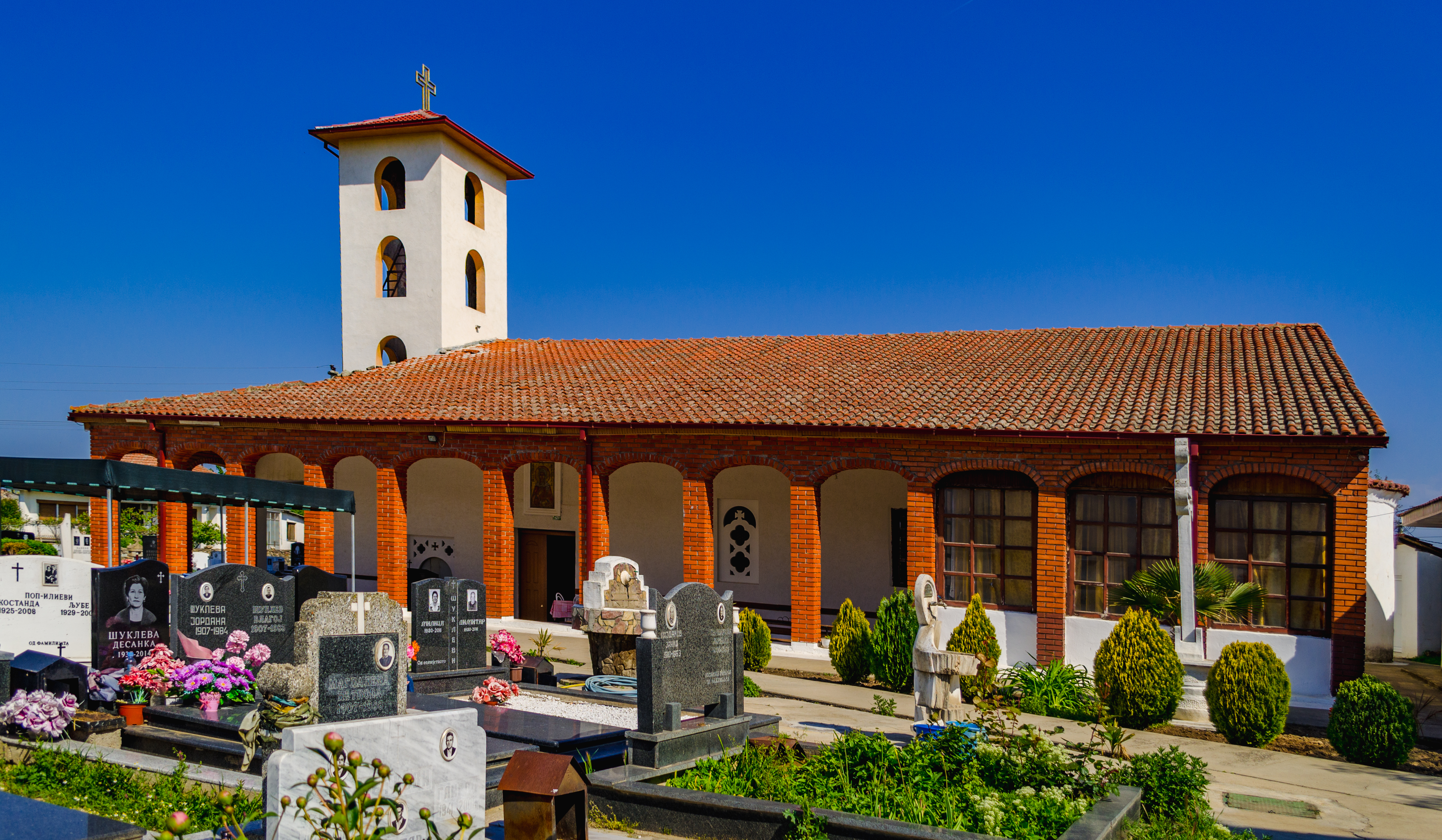 St. Nedela Church in the village of Stojakovo